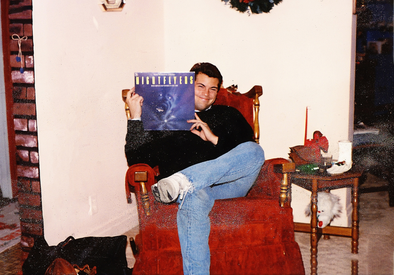 This is a picture of Doug Timm with his Album at Christmas in 1987